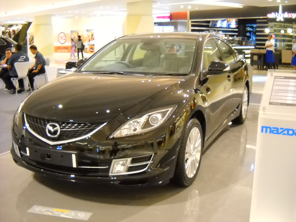 Mazda 6 di Central Park Mall, Jakarta.